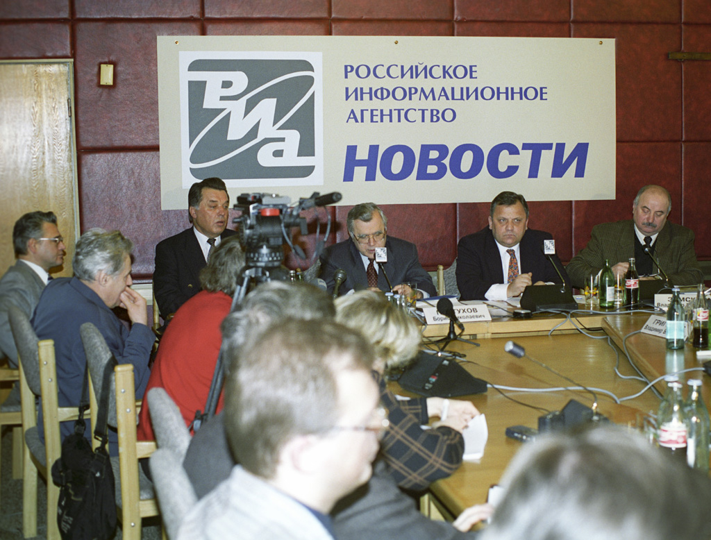 “"Round table" on the subject: "Russia - Belorussia: on the way to deepening integration" at RIA Novosti”. Vladimir Zemsky, general secretary of the collective security council, participant of the "round table" on the subject: "Russia - Belorussia: on the way to deepening integration". The Russian news agency, RIA Novosti.